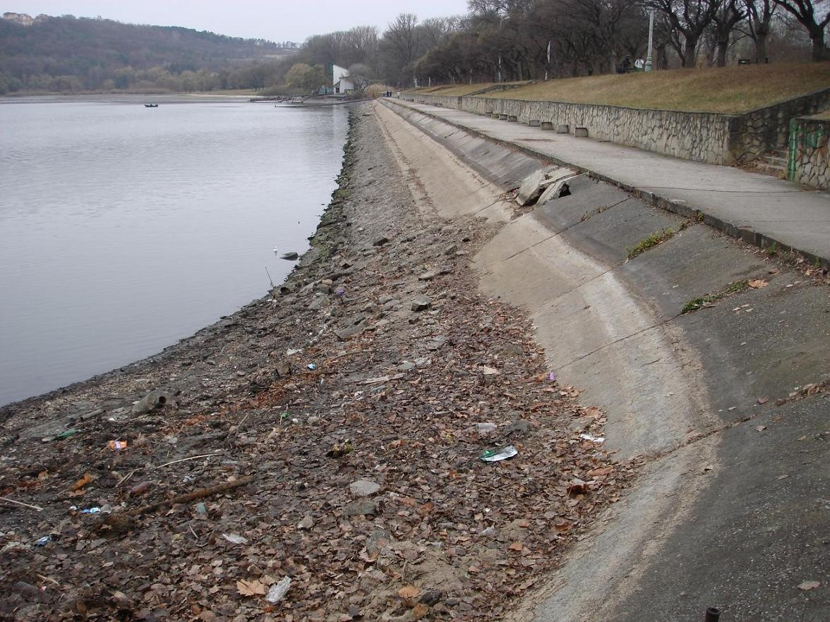 Lake Valea Morilor, Chisinau, Moldova